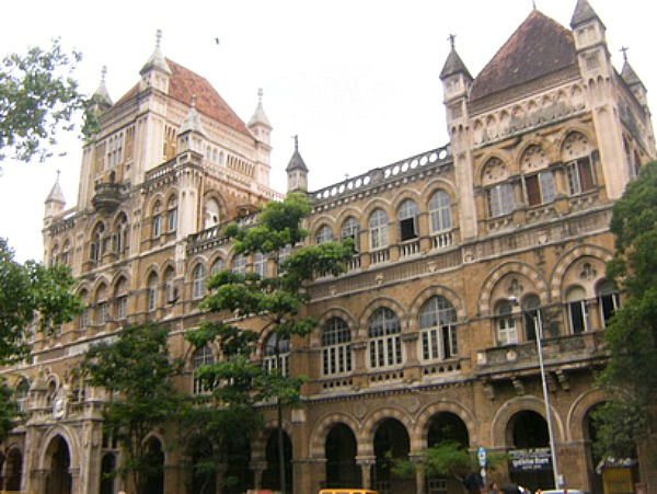 One of the oldest colleges of Mumbai